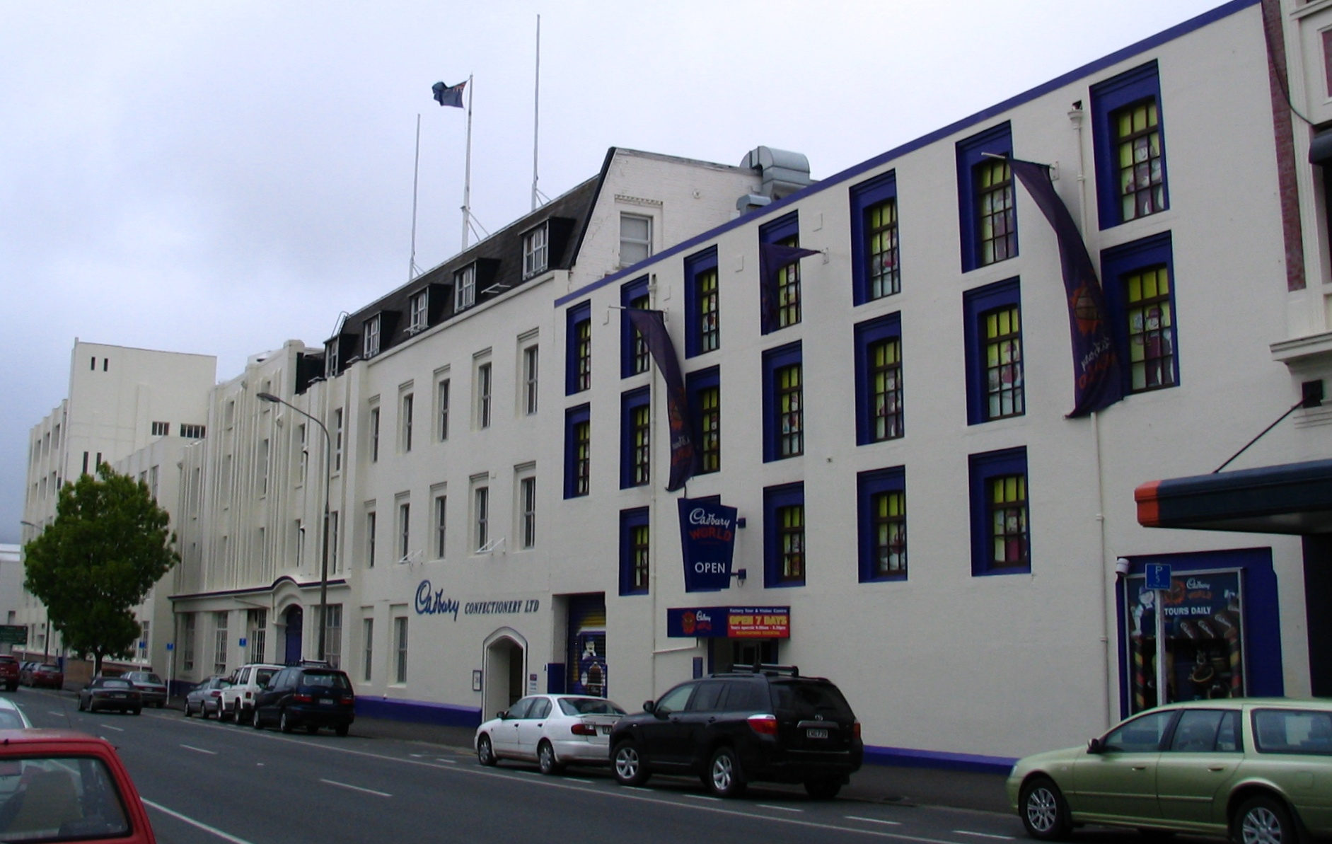 Cumberland St facades of the Cadbury buildings in Dunedin, New Zealand